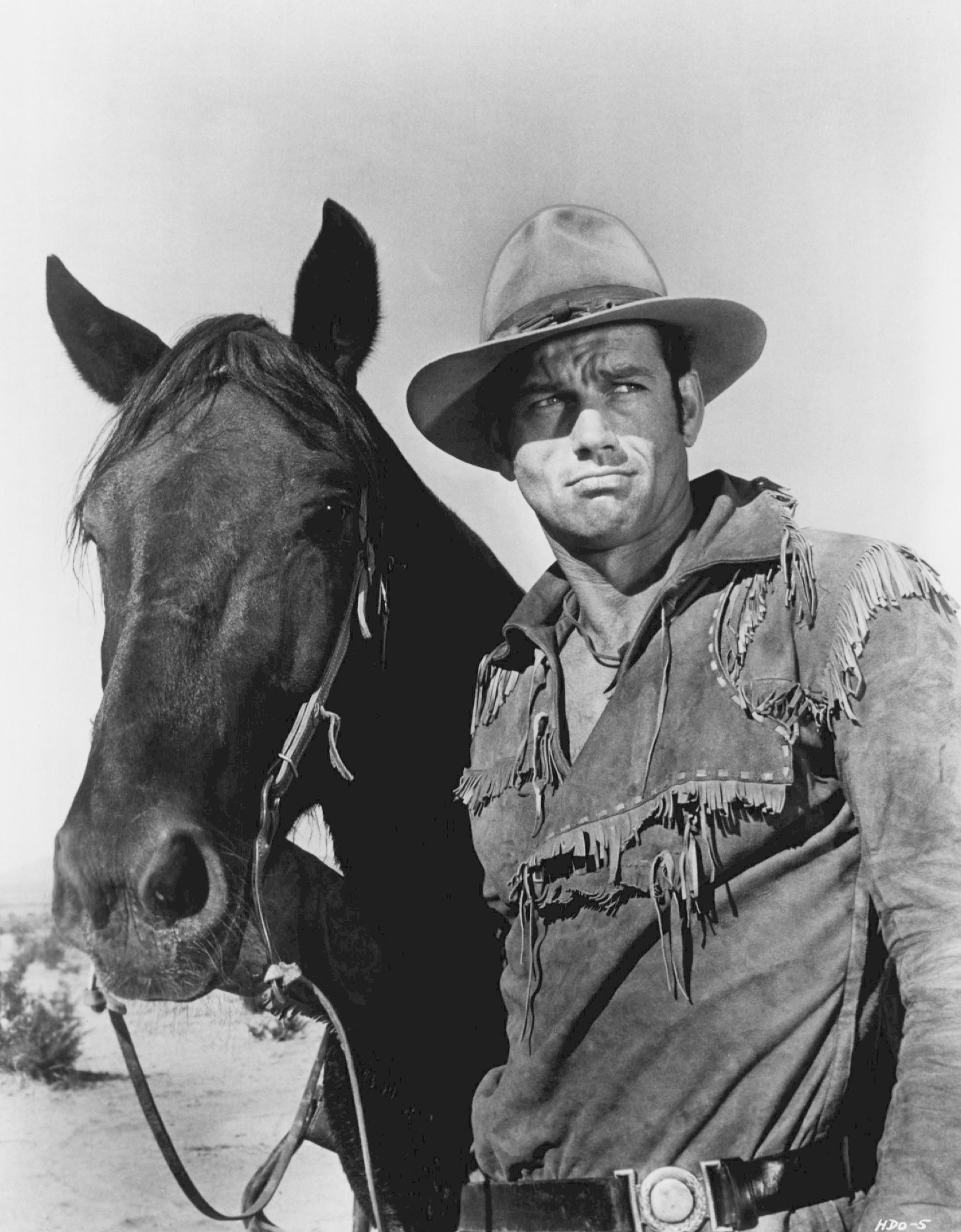 Photo of Ralph Taeger as Hondo Lane from Hondo (TV series).